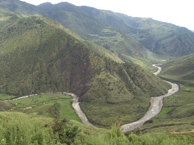 meandering Kholong Chu (Kulong Chu) seens from Khamdang Village; Trashi yangtse; bhutan